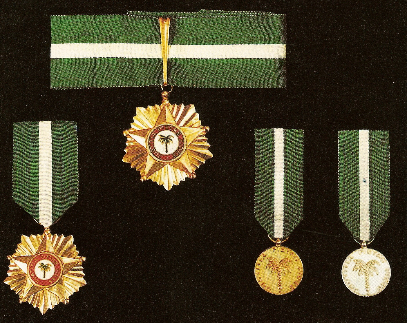 The Honourable Order of the Palm and the medal of the Palm in gold and silver (Suriname)